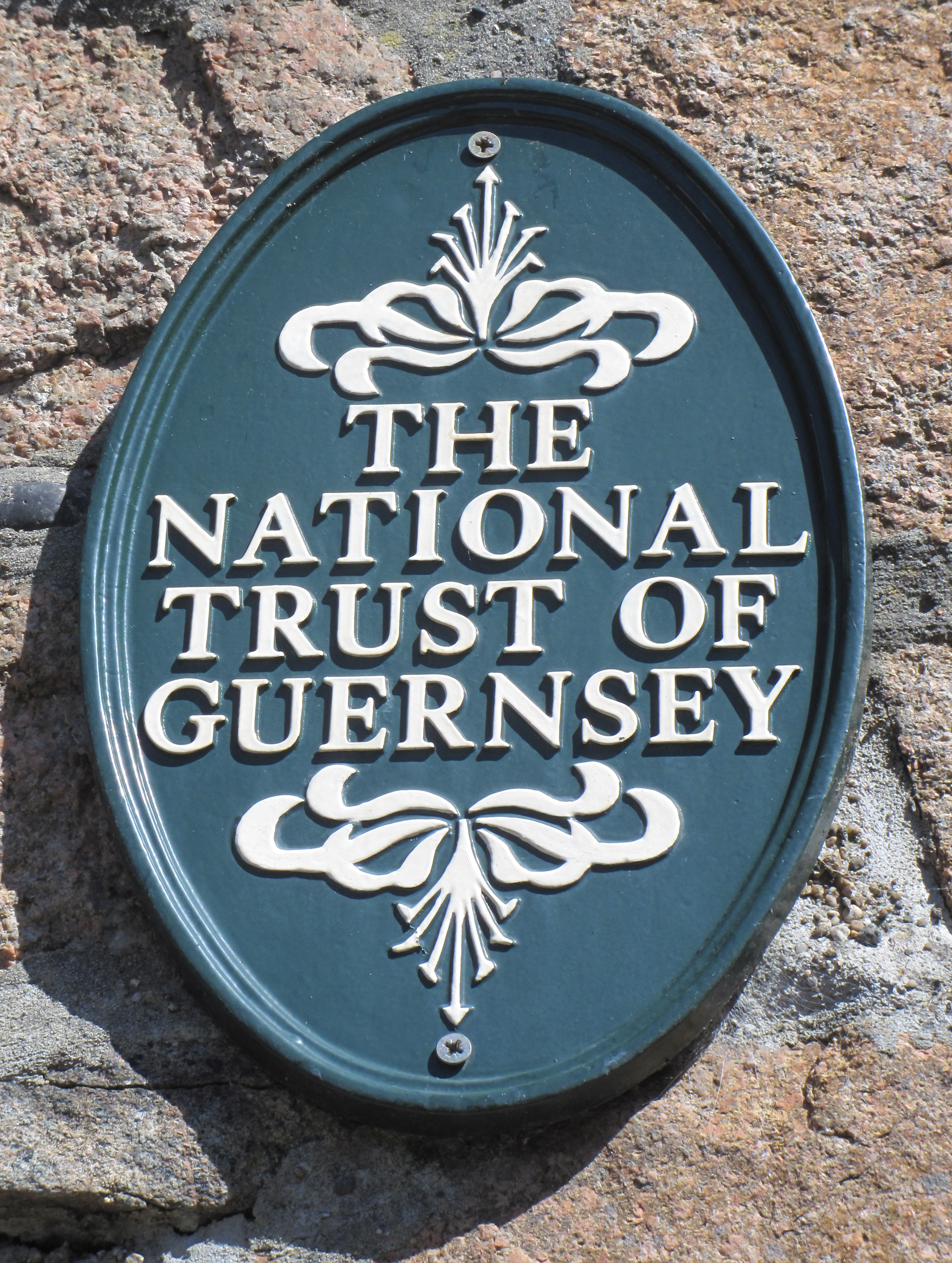 In Guernsey, 4 July 2010 - The National Trust of Guernsey